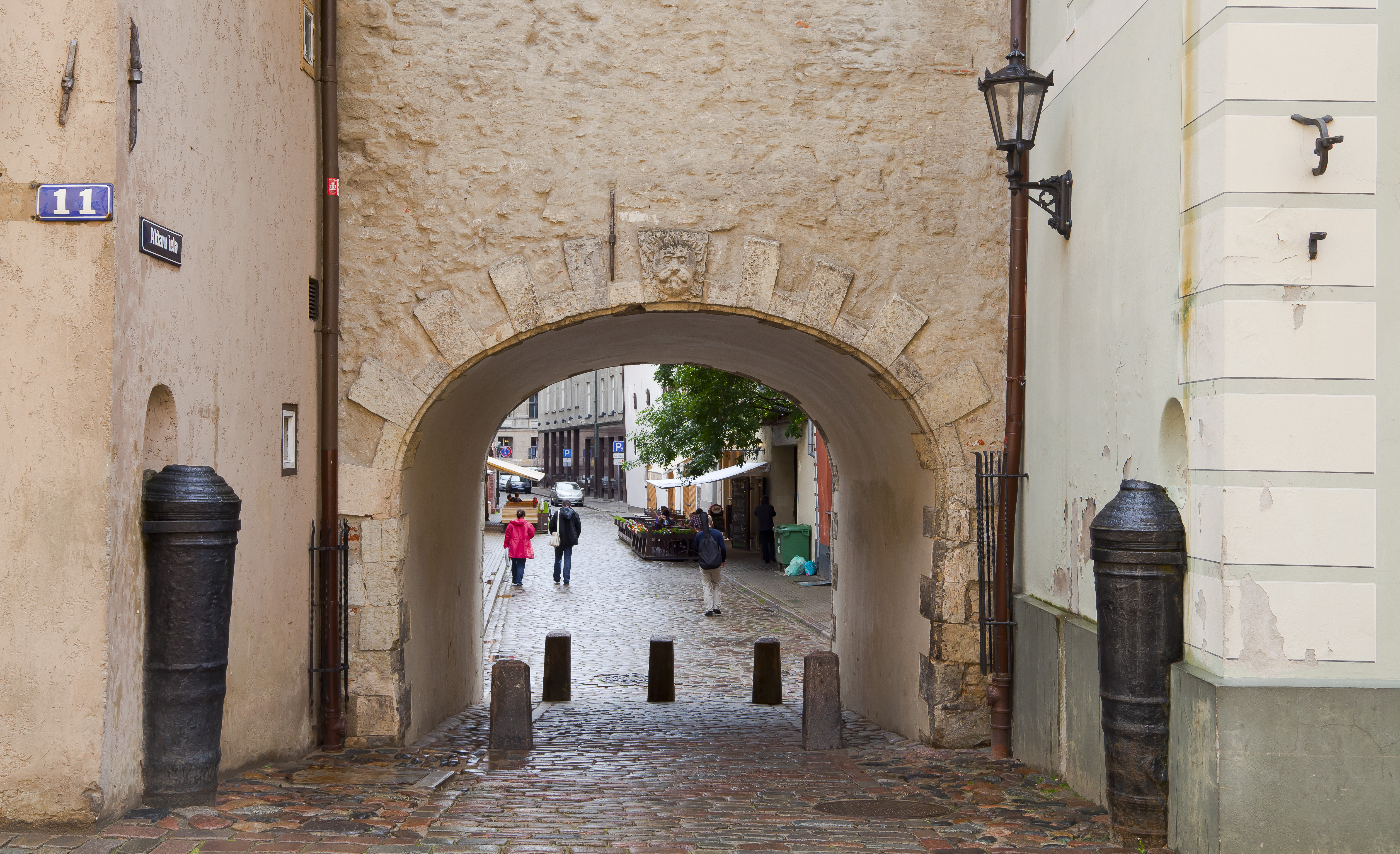 Swedish Gate, Riga, Latvia